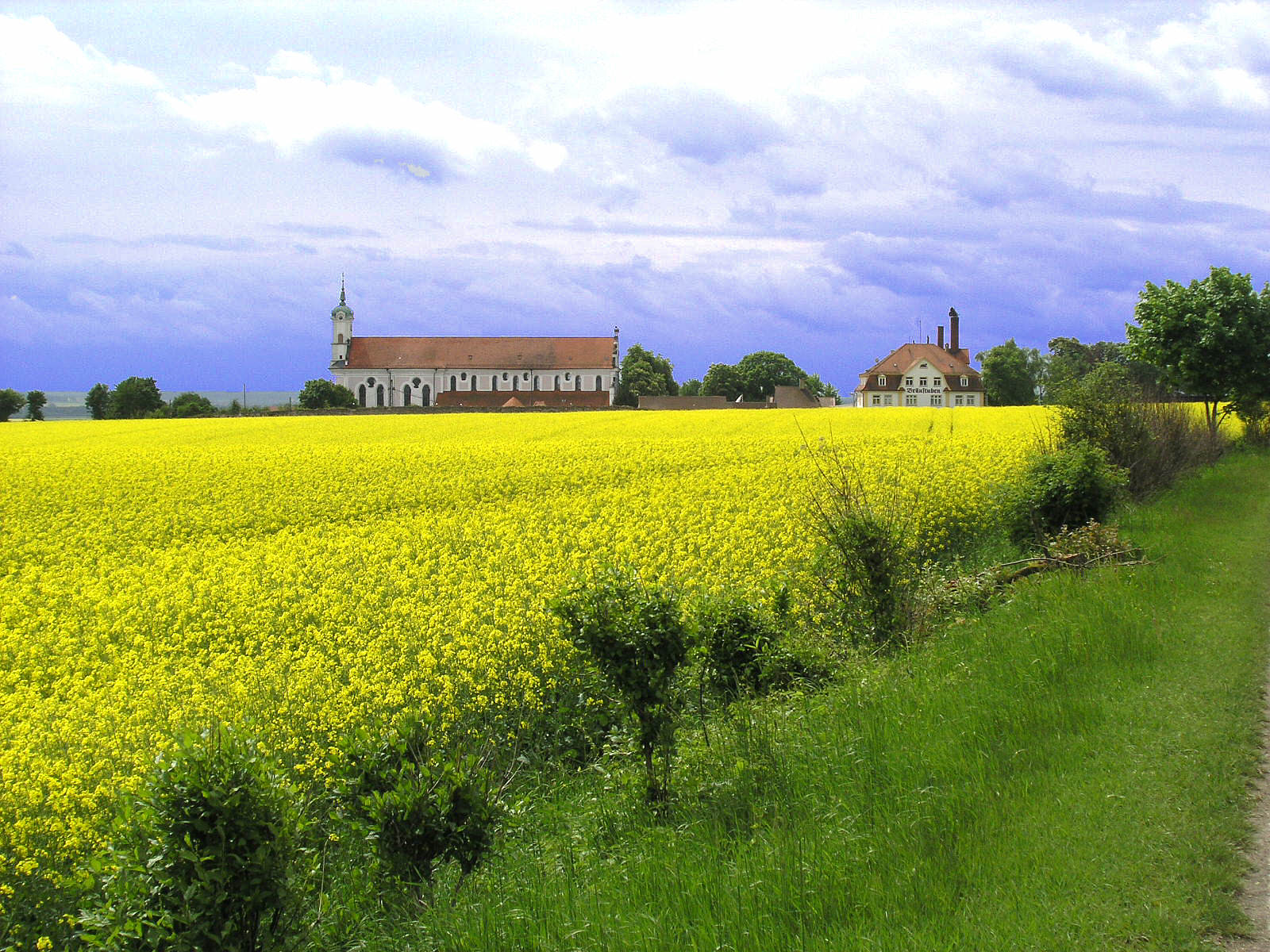 Monastery church of Elchingen. In the foreground you can see the battlefield where Napoleon defeated the Austrians in 1805.